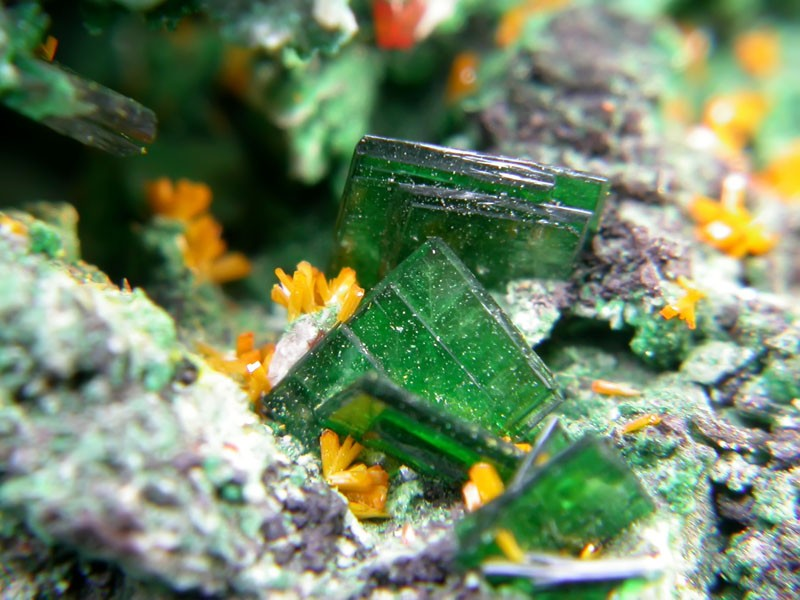 Wulfenite, Kasolite, Torbernite, Guilleminite, Malachite Locality: Musonoi Mine, Kolwezi, Western area, Katanga Copper Crescent, Katanga (Shaba), Democratic Republic of Congo (Zaïre) (Locality at ) Size: 5.0 x 4.4 x 4.1 cm. This is a great combination piece containing 5 minerals. The most surprisingly spectacular are the blood red Wulfenite crystals in a prismatic habit, up to 1 mm in size sitting on a carpet of green velvet Malachite. Wulfenite is rare in Katanga (only 2 valid localities for this huge province) and in Musonoi they are at their best. They are associated with well terminated and bright yellow Kasolite crystals reaching 2 mm in size. Some are showing phantom growth. Also present are green, transparent platy Torbernite crystals reaching 4 mm on edge. The edges of the Torbernite are worth a closer look - some of them are the matrix for very small Guilleminite crystal clusters. This specimen was recovered during the removal of the U-dump in the early 1990’s. Musonoi has ceased producing minerals since then. Musonoi is the Type Locality for Guilleminite. Nothing has come out of Katanga for more than 15 years, except for Malachite and Chrysocolla.